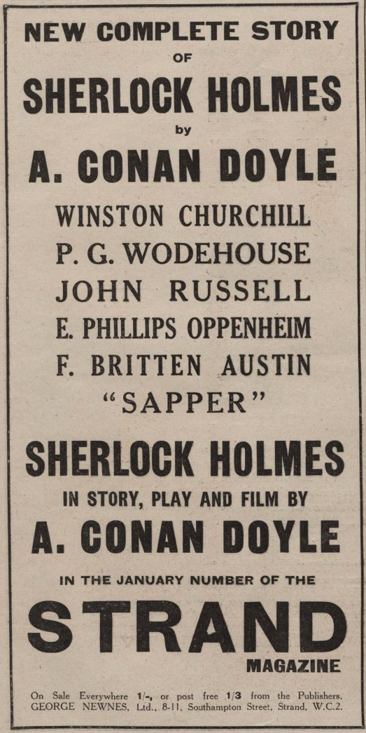 page 39 of the 28 December 1923 edition of The Radio Times